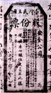 Bond Issued by Republic of Formosa for Buying Weapons to Fight with Japanese Soldiers, 1895